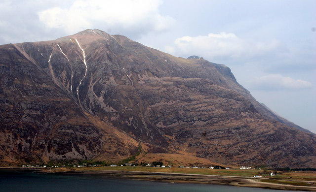 Torridon, near to Torridon, Highland, Great Britain. This tiny settlement nestles at the foot of mighty Liathach